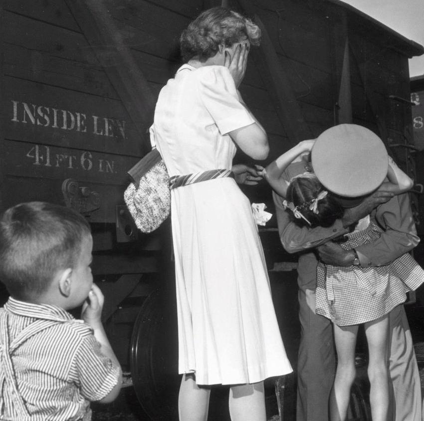 "Homecoming", a photograph of Lt. Col. Robert Moore greeting his family upon returning home for a visit to Villisca, Iowa, during World War II. This photograph won the 1944 Pulitzer Prize for Photography (sharing the honor with "Tarawa Island").